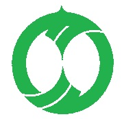 Karumai Iwate chapter